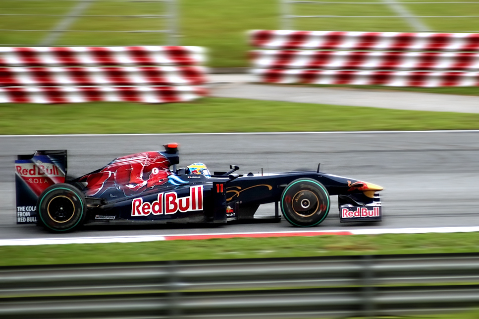 Sébastien Bourdais at 2009 Malaysian Grand Prix, Sepang, Malaysia.